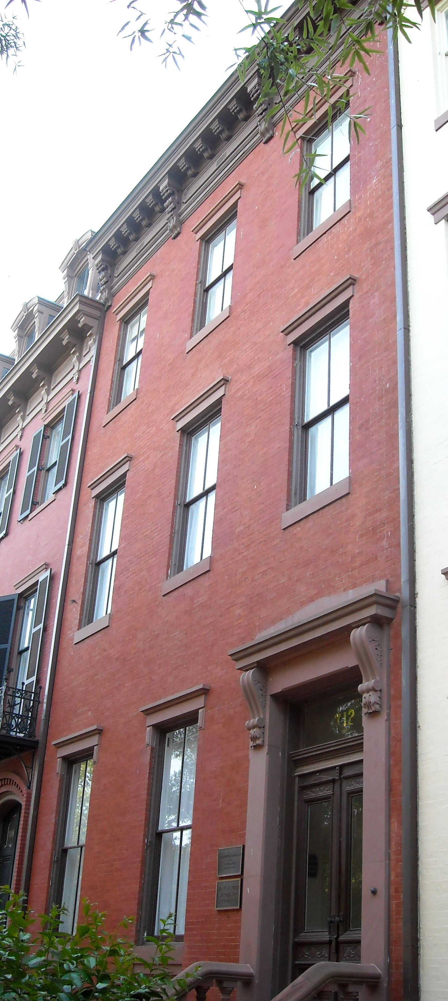 White House Fellows Building on Jackson Place in Washington, D.C.